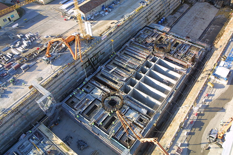 Air view of the LNG - Offshore Terminal